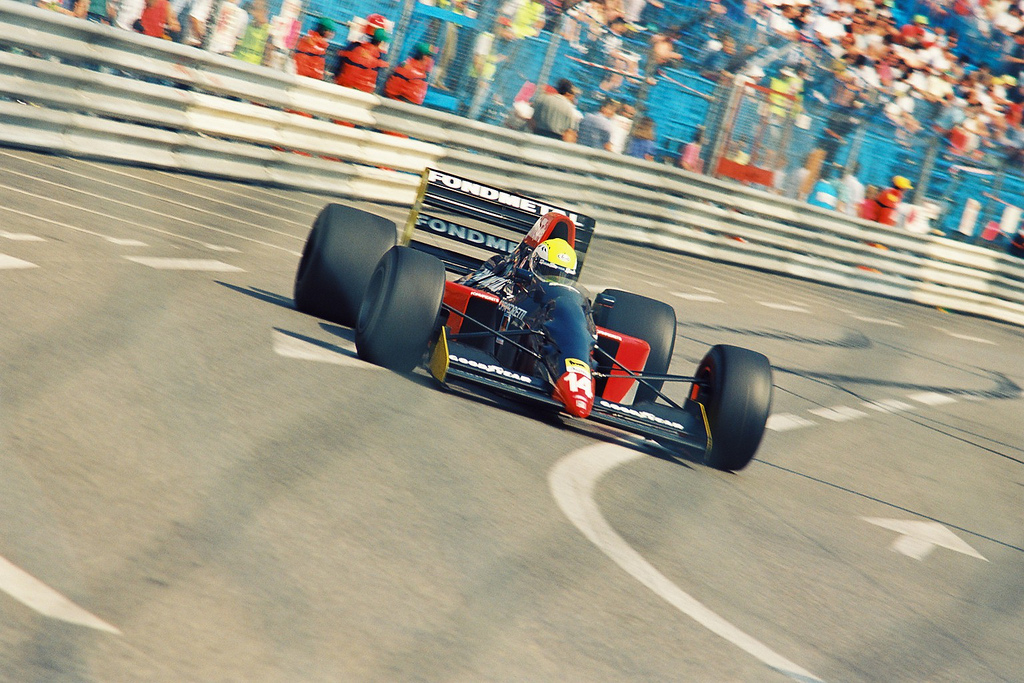 Andrea Chiesa approaching Piscine in Thursday practice of 1992 Monaco Grand Prix.